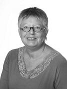 Picture of Muriel Gerkens. Author is muriel gerkens, who gave me the authorisation to upload this file.